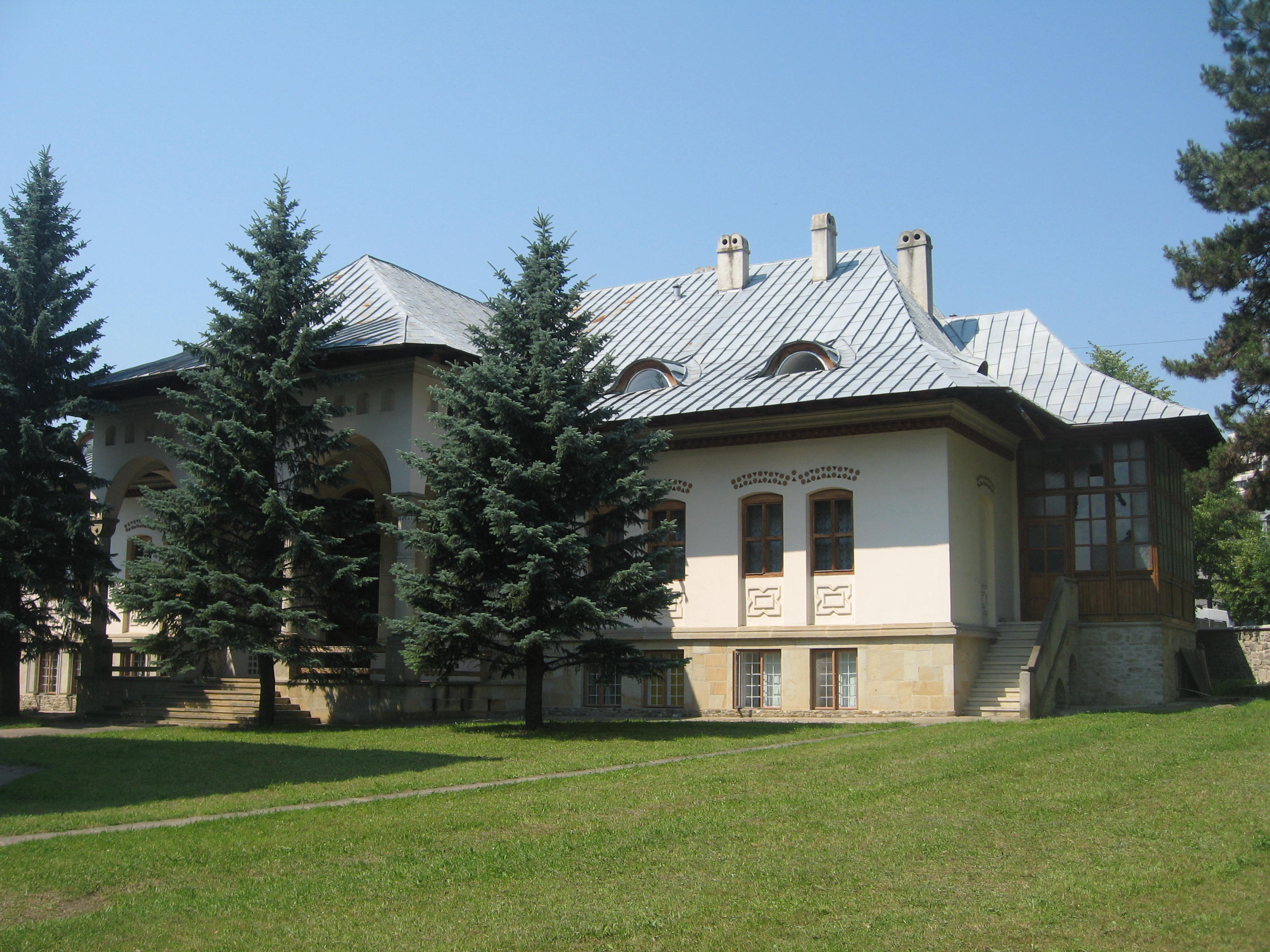 St. John the New Monastery in Suceava - the abbot residence.